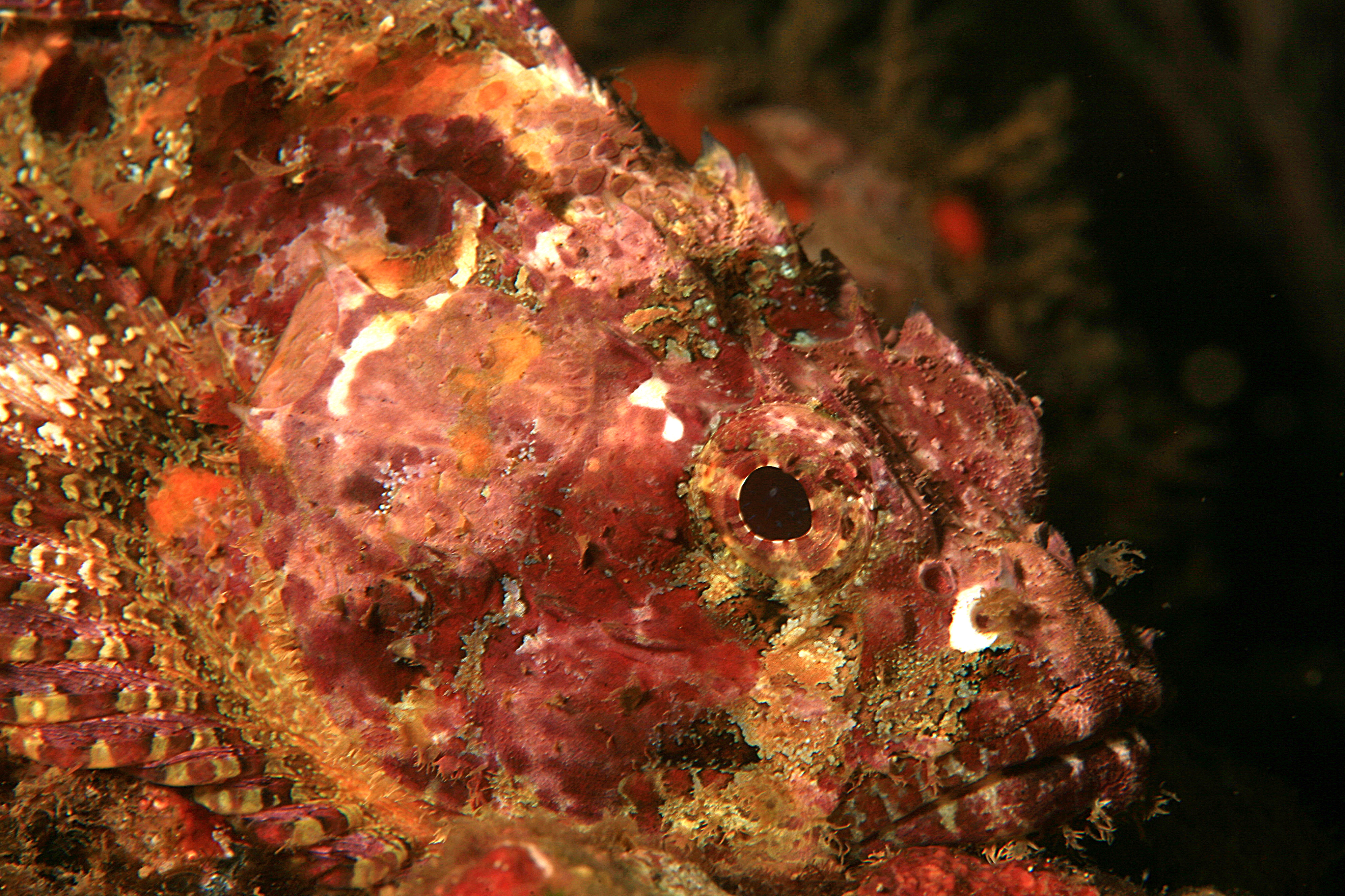 Scorpaena mystes, photographed at Machete dive site - Isla Coiba, Panama